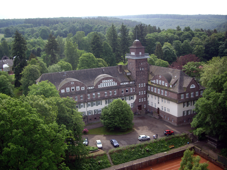 Foto of one of the residencial buildings of the school: the upper house